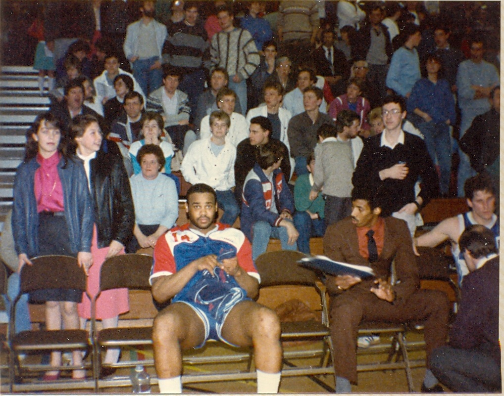 From left - Portsmouth FC Basketball Club players Colin Irish, Alan Cunningham (caretaker coach) and Dan Lloyd pictured during half-time of the British Masters quarter-final second leg match against Crystal Palace at the Mountbatten Centre in Portsmouth on March 26th 1986.